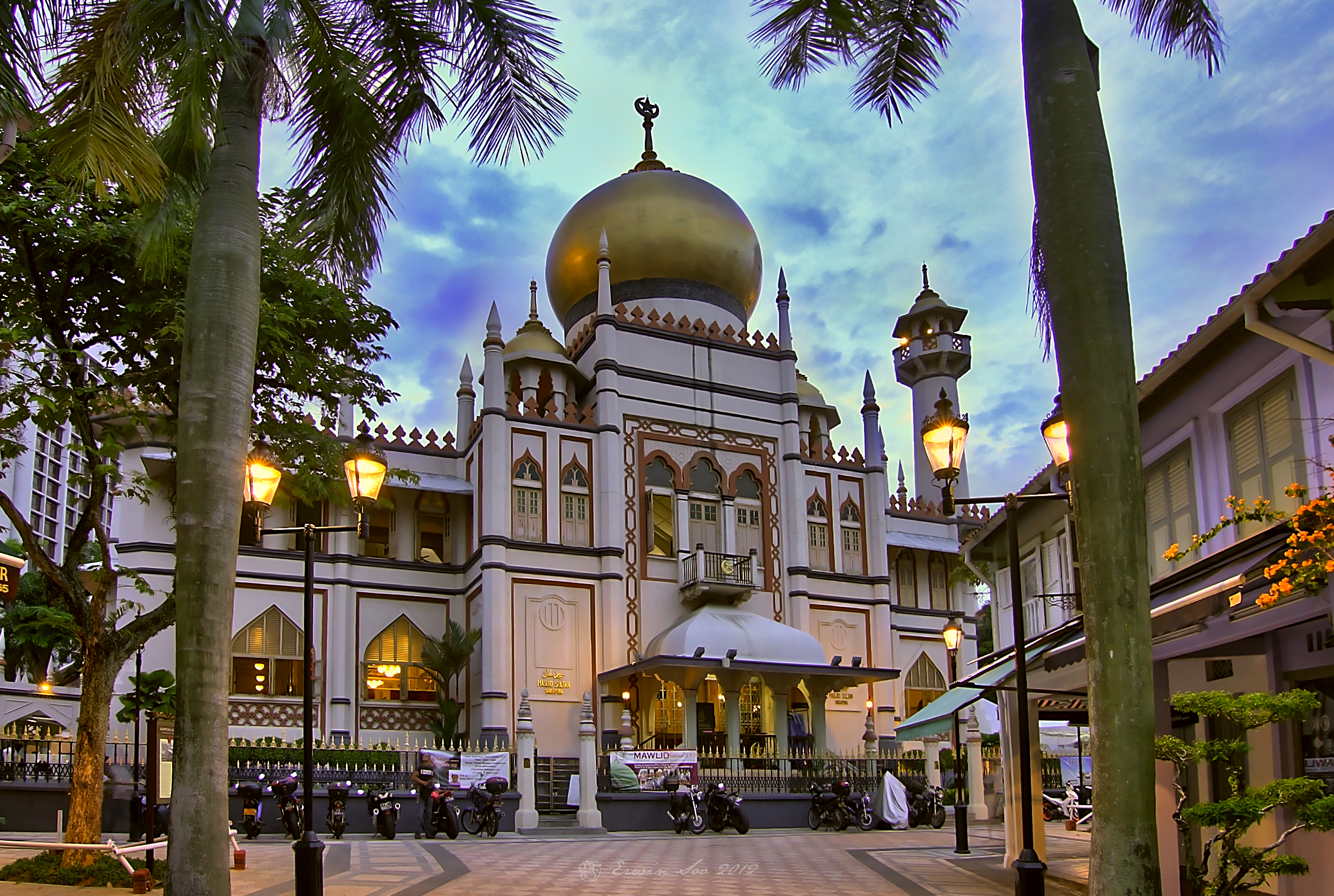 Masjid Sultan (Jawi: مسجد سلطان ;Malay for Sultan Mosque; is located at Muscat Street and North Bridge Road within the Kampong Glam district of Rochor Planning Area in Singapore. The mosque is considered one of the most important mosques in Singapore. The prayer hall and domes highlight the mosque's star features.